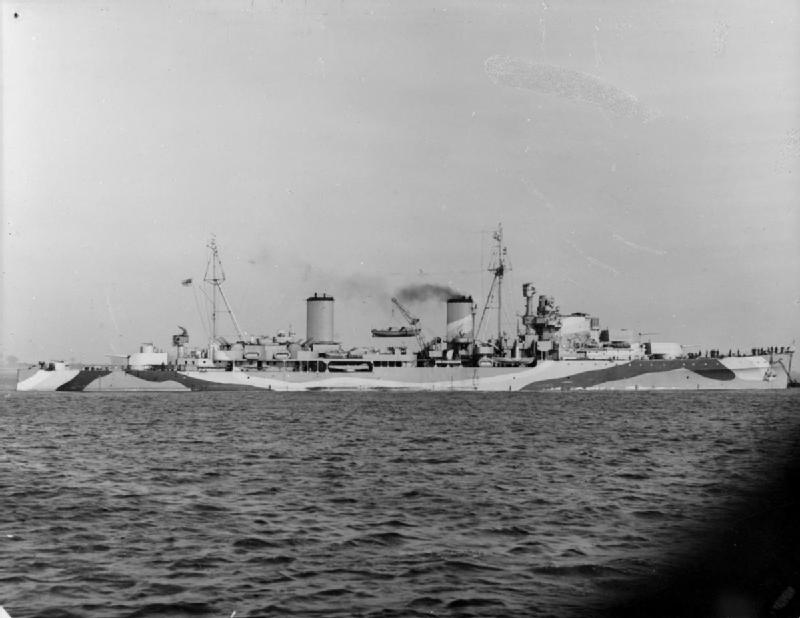 Photograph of British light cruiser HMS Arethusa.